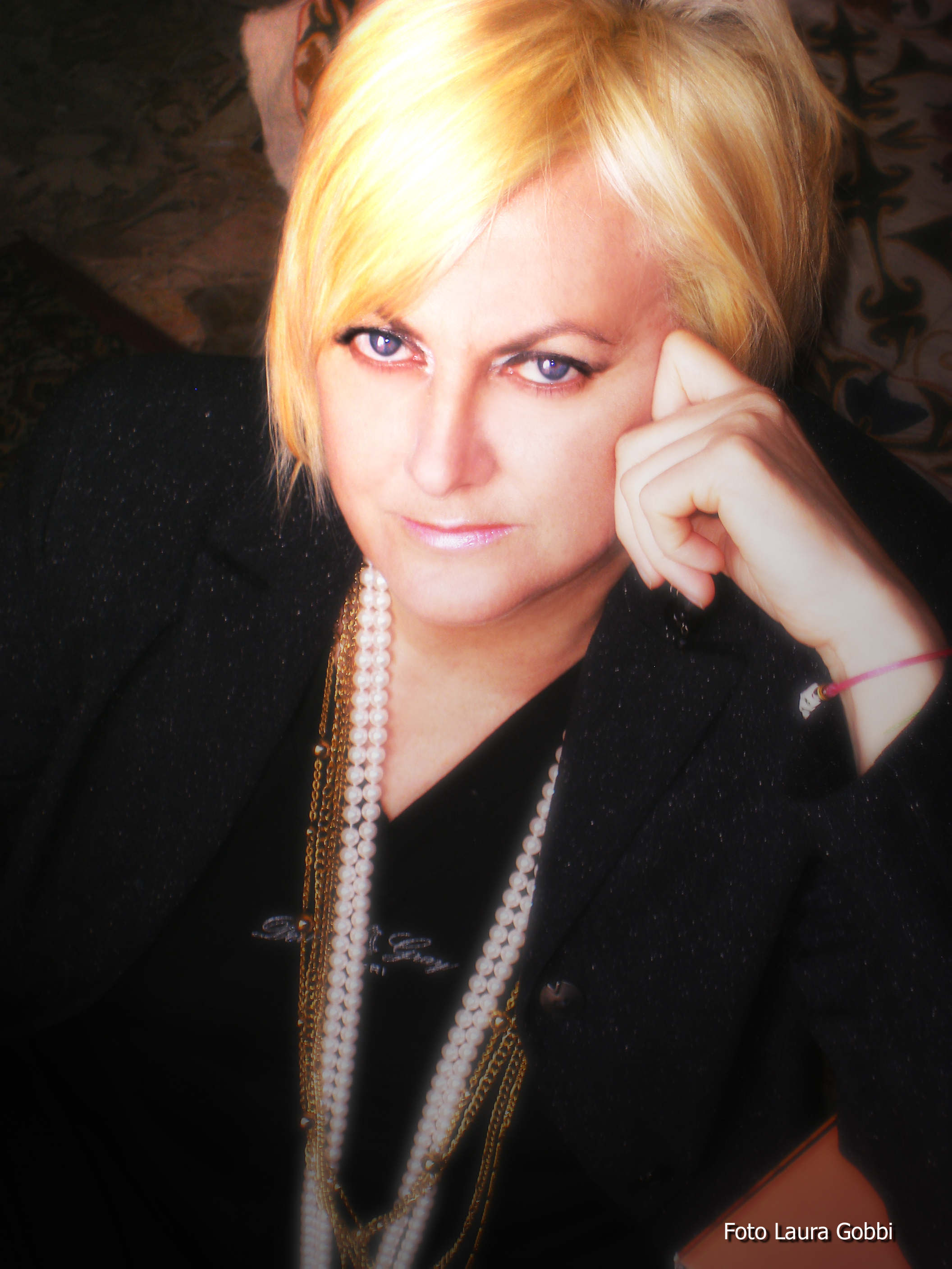 Patrizia Finucci Gallo